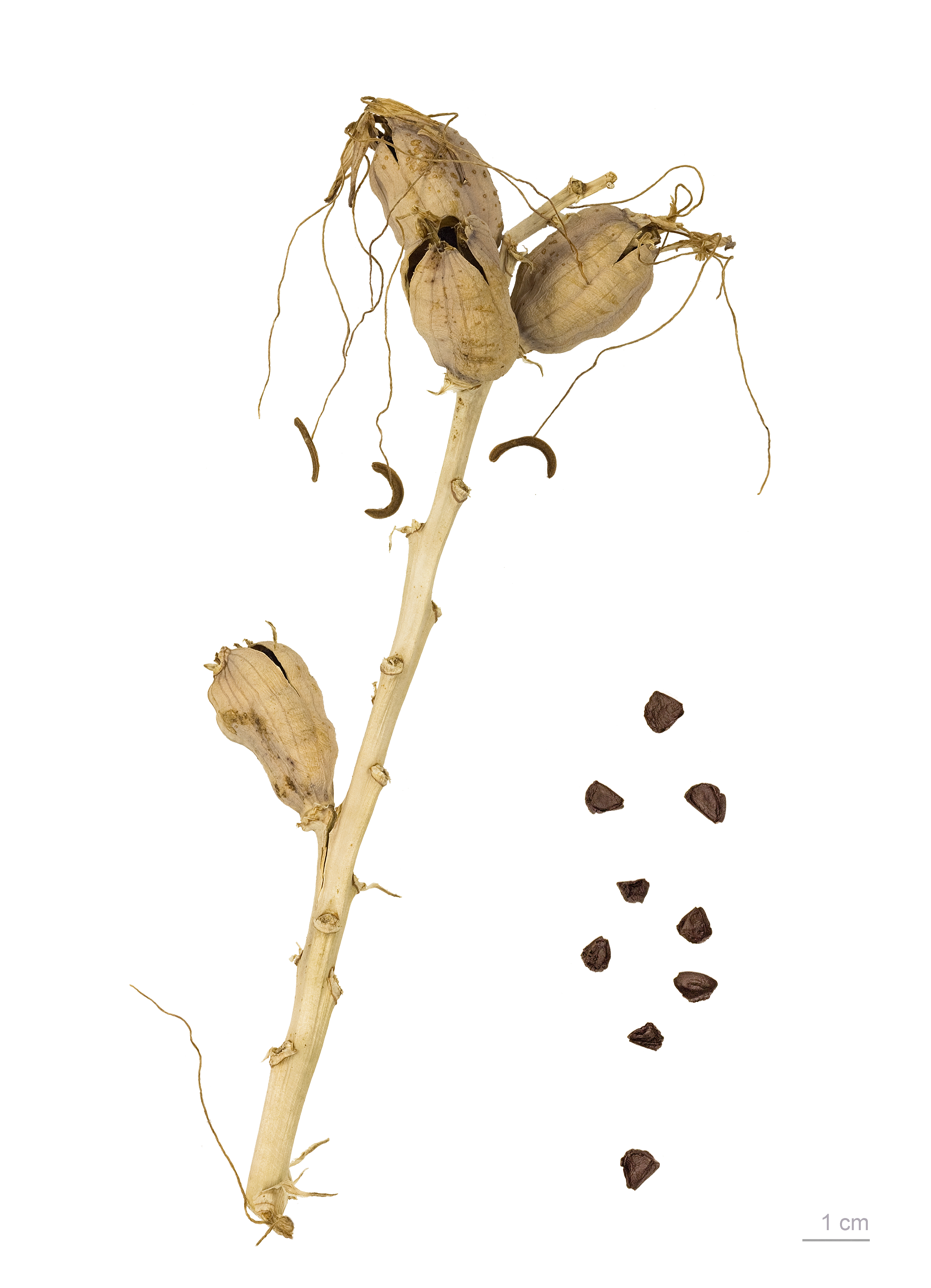 Manfreda maculosa, spice lily , fruits and seeds